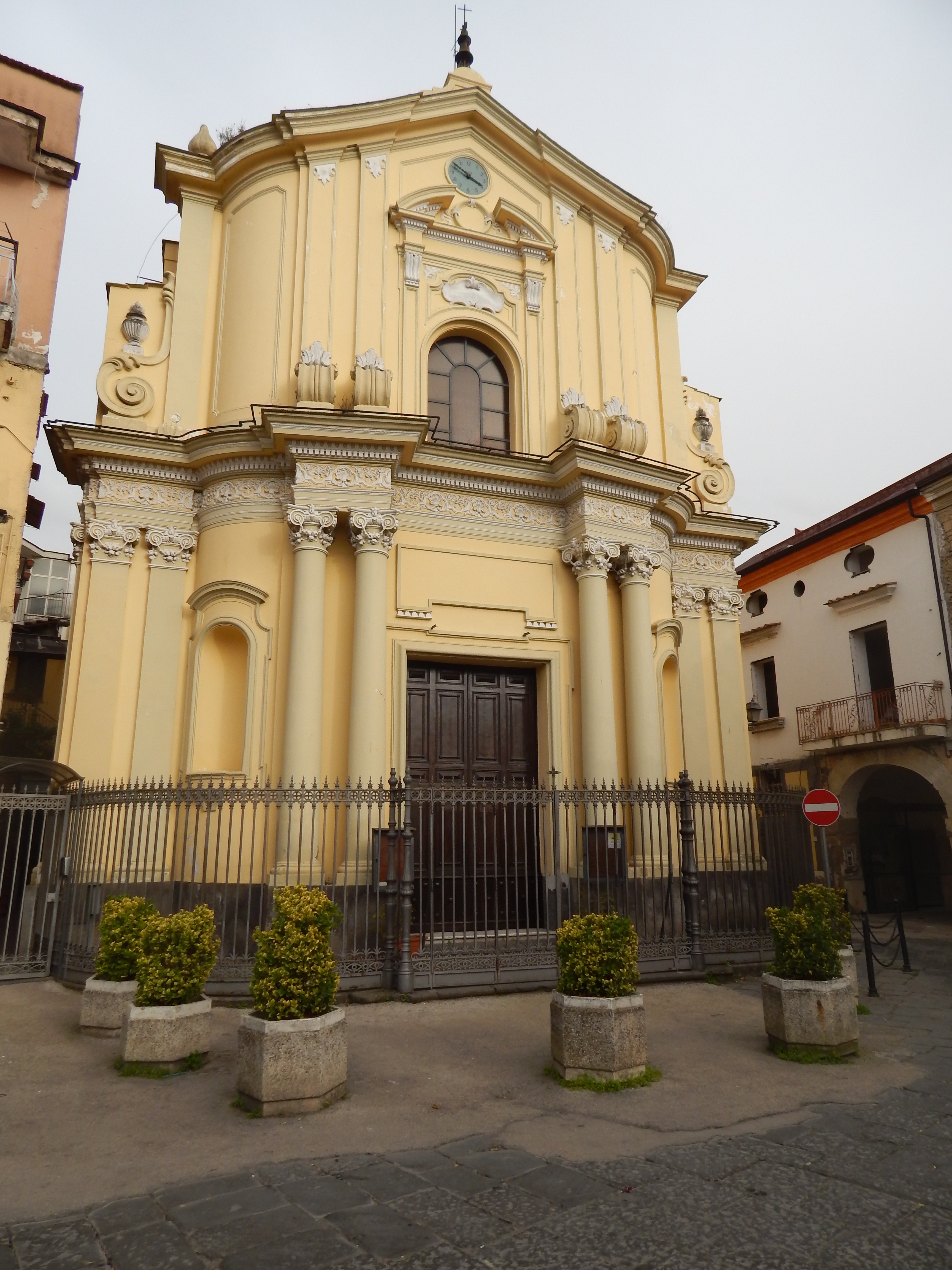 Chiesa Suffragio Acerra